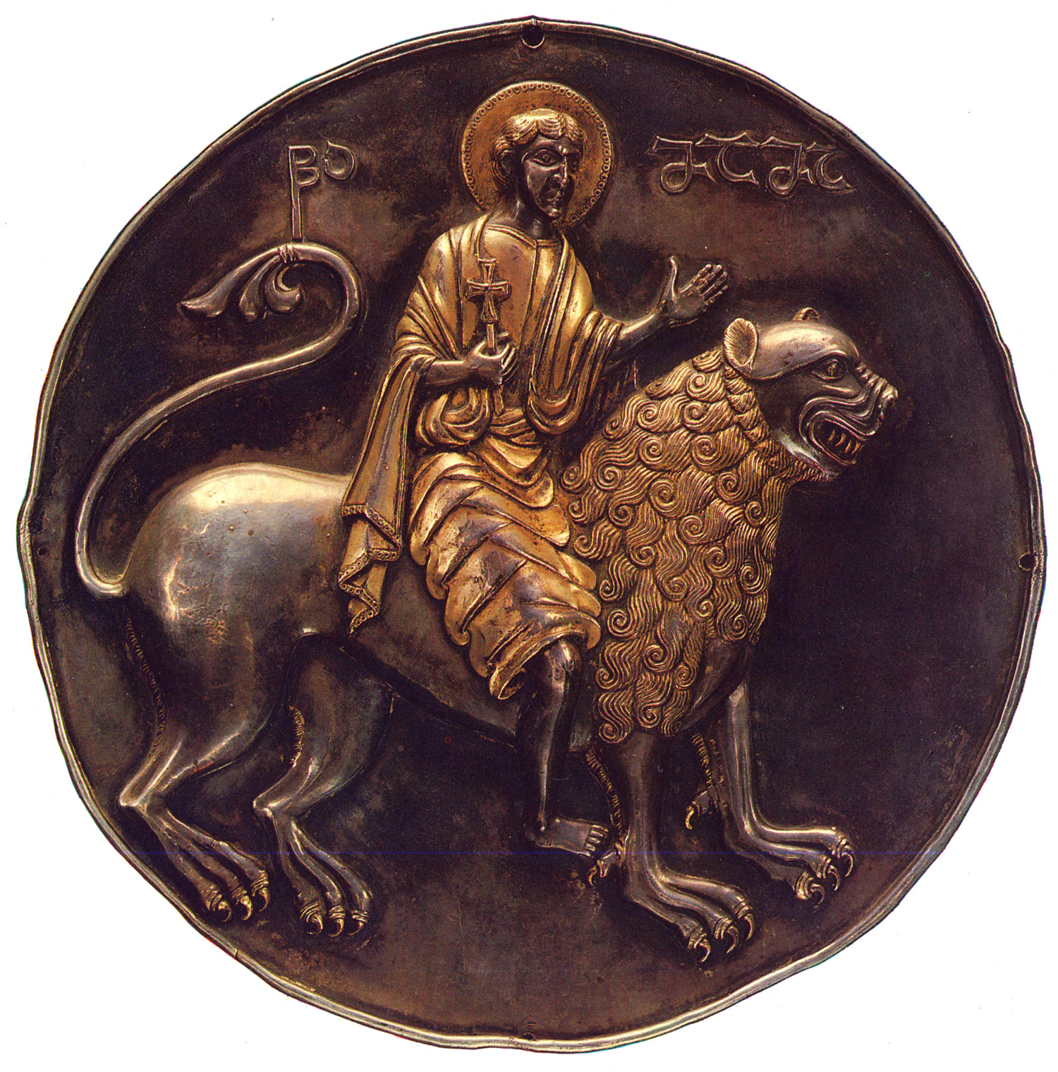 Tondo showing St. Mamai on a lion